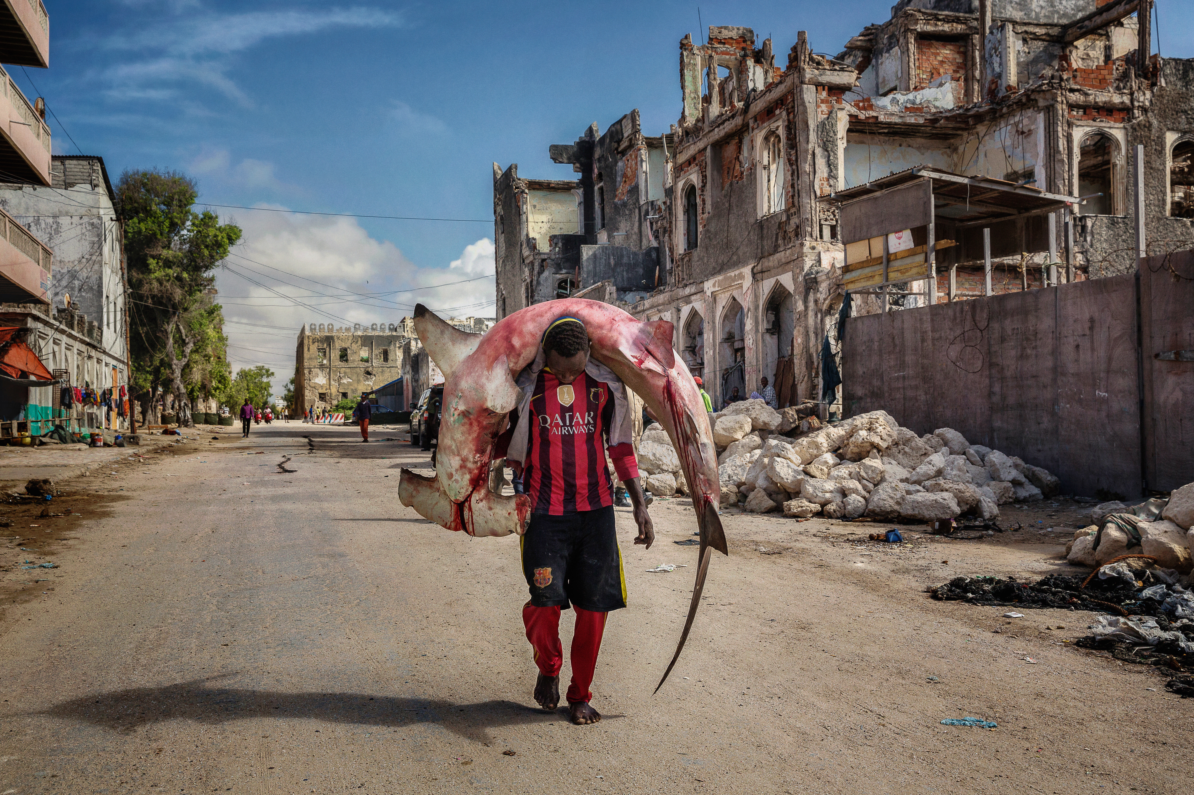 Africa, Somalia, Mogadishu. 10/10/2015. A man carries a huge hammerhead through the streets of Mogadishu.